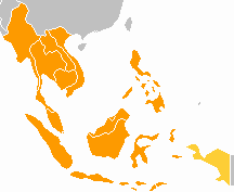 map of south-eastern asia